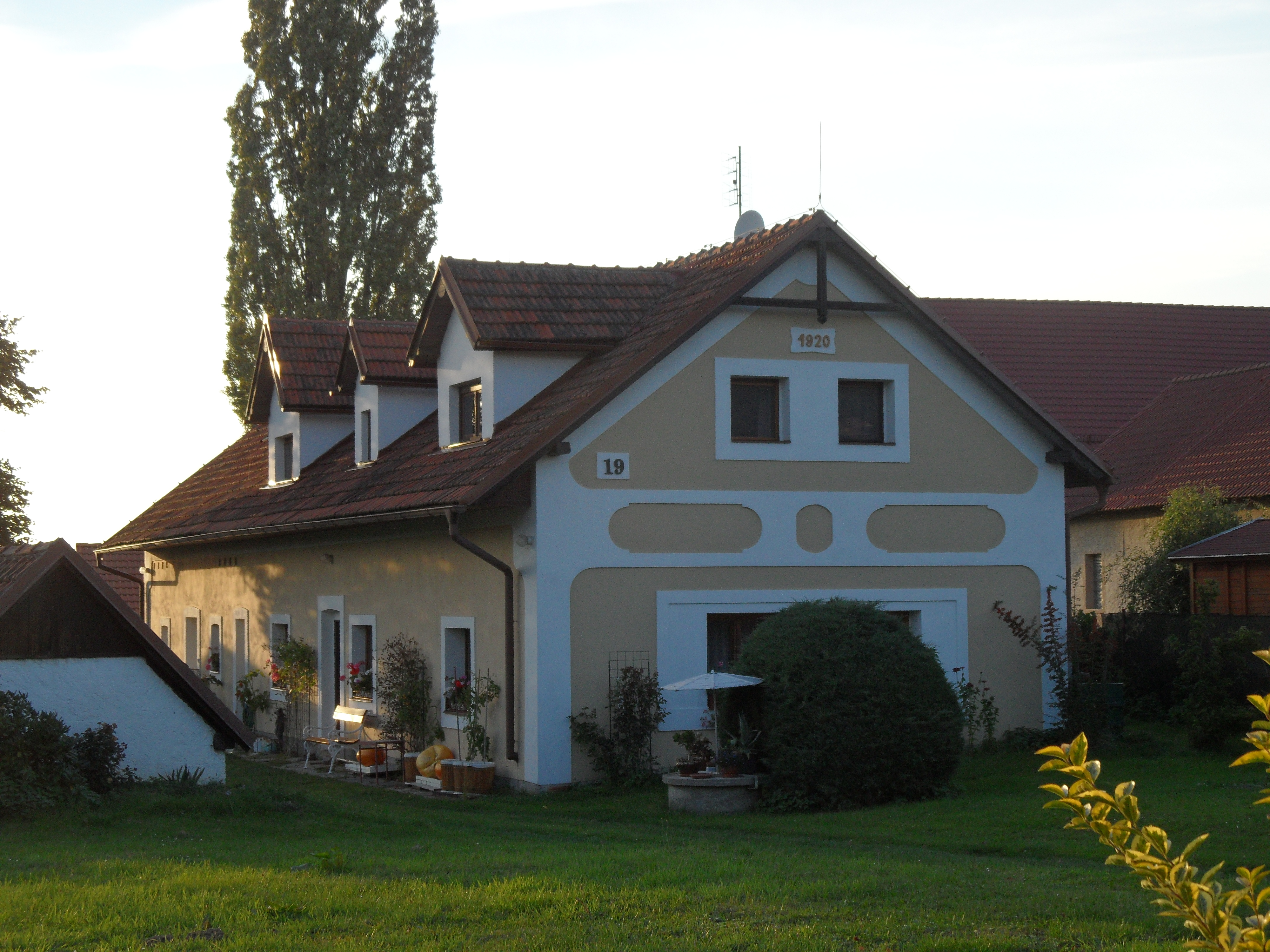 Křečovice (Onomyšl) A. House No 19 (from Year 1920), Kutná Hora District, the Czech Republic.